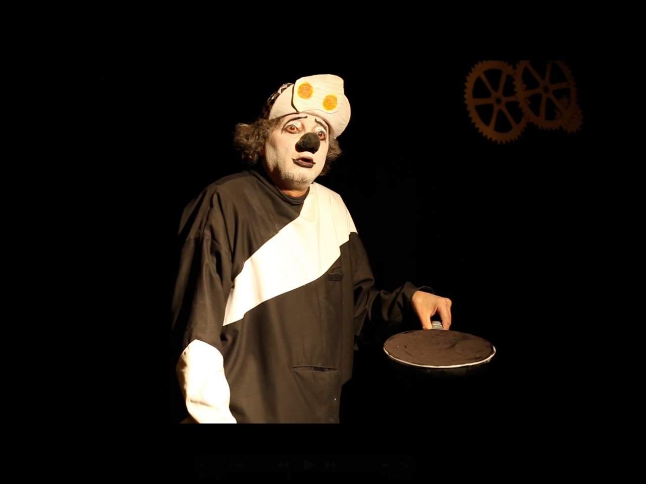 Vladimir Olshansky in The Path of a Clown, New York, photo by Y.Olshansky